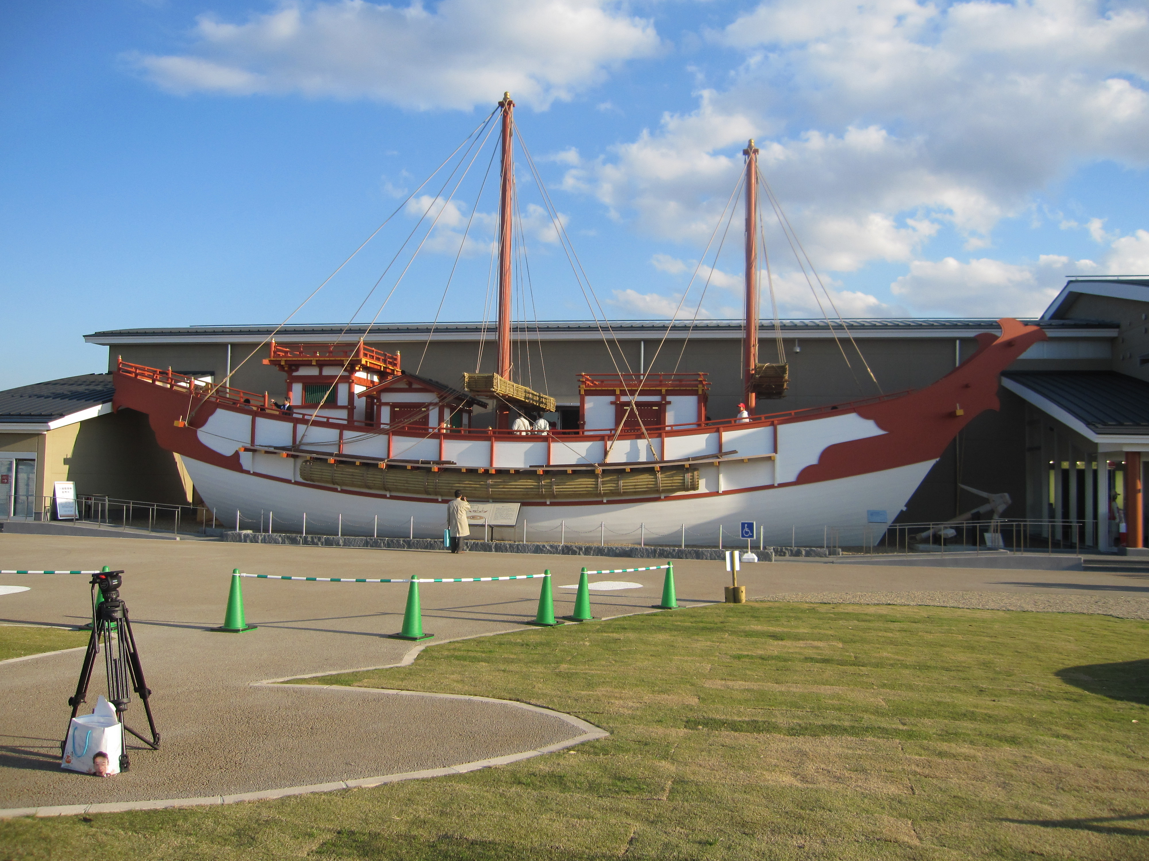 Full-scale Replica of Japanese Diplomatic Ship for Envoys to Tang China